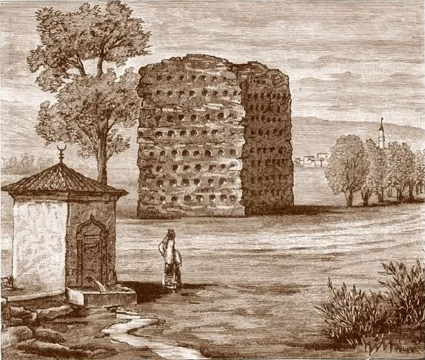 Skull Tower at Nish